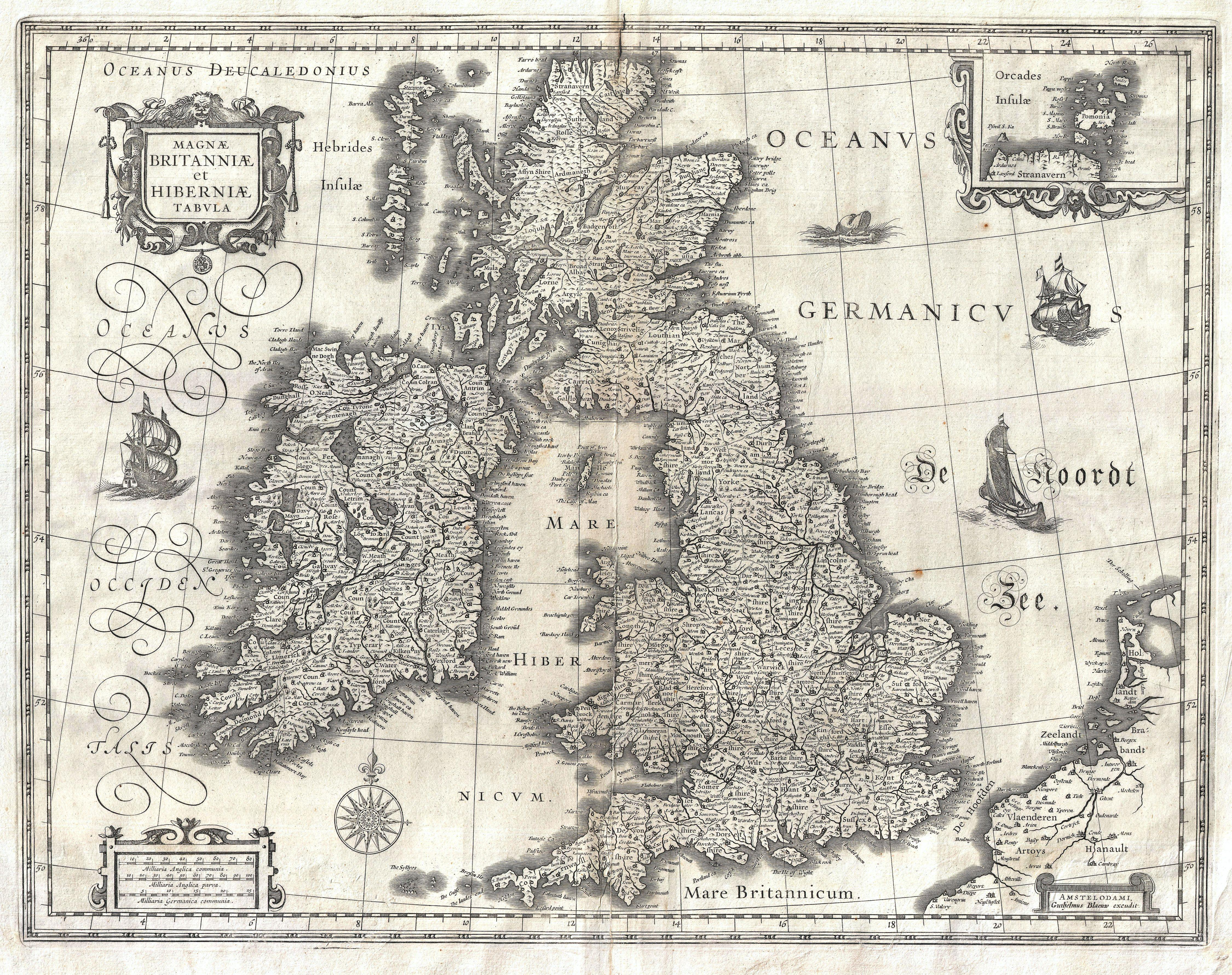 This is Guillaume Blaeu’s 1631 map of the British Isles. Covers all of England, Scotland, Wales, and Ireland with adjacent parts of France and Holland and an inset of the Orkney Islands. Cartographically this map is based upon the plates of Jodocus Hondius, which Blaeu acquired in 1629. The original plate drawn by Hondius in 1617, had decorative border images surrounding the map, but Blaeu was forced to reformat the map, sans images, for issue in his seminal Atlas Major. This map would become Blaeu’s standard representation of the British Isles and was published in most subsequent Blaeu atlases issued between 1634 and 1672. A sharp crisp impression suggests an early strike.